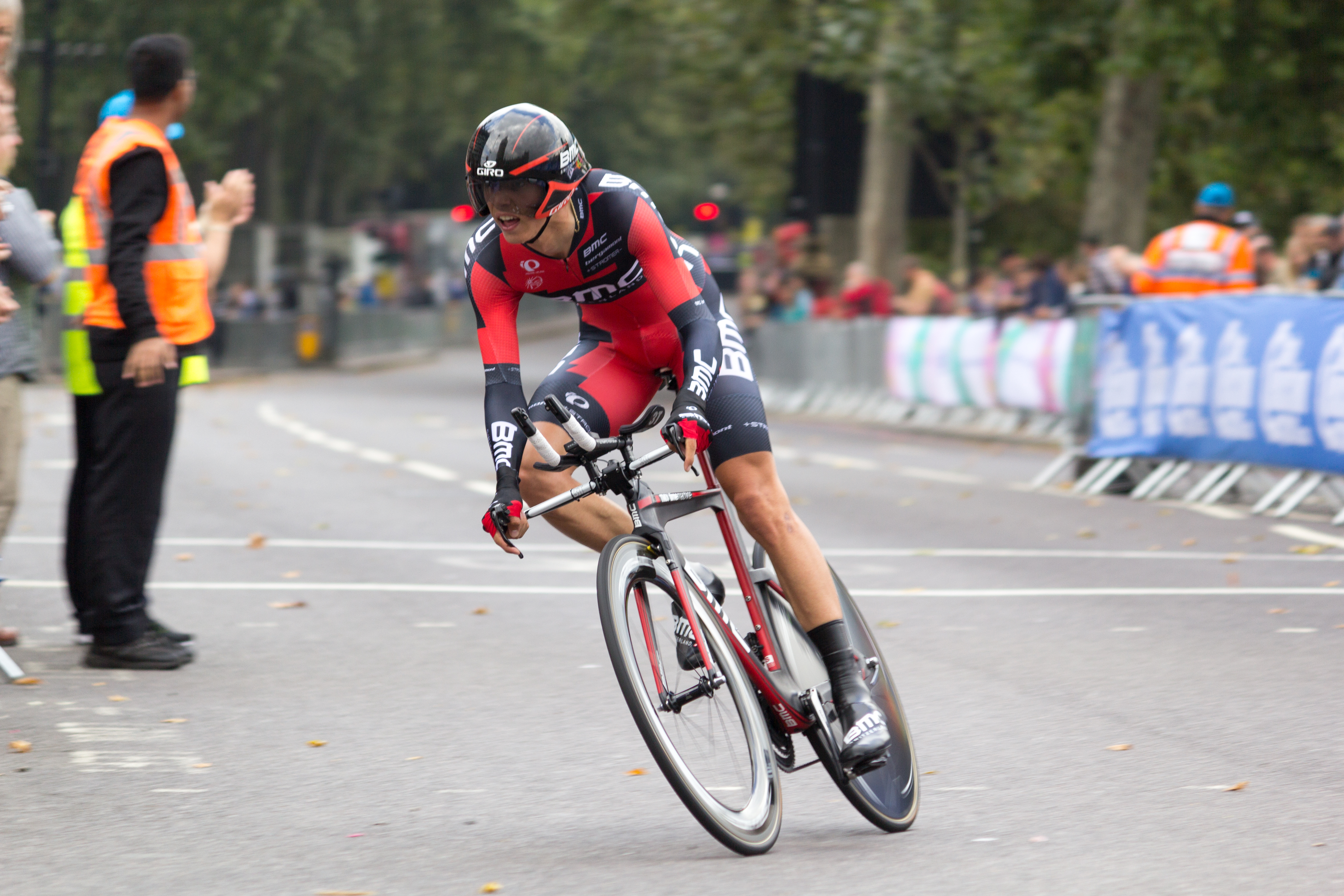 Tour of Britain 2014 stage 8a - London time trial